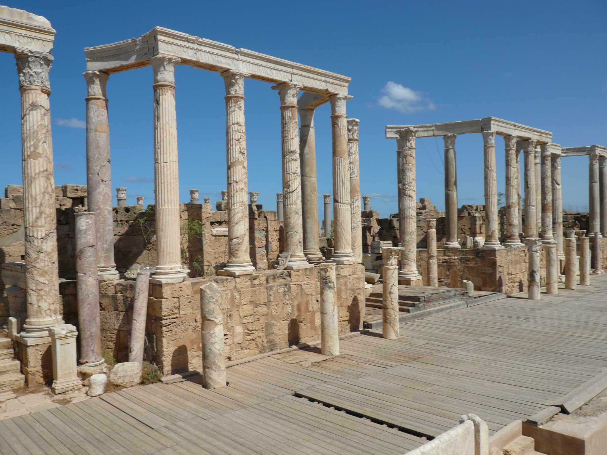 Archaeological Site of Leptis Magna (Libya)